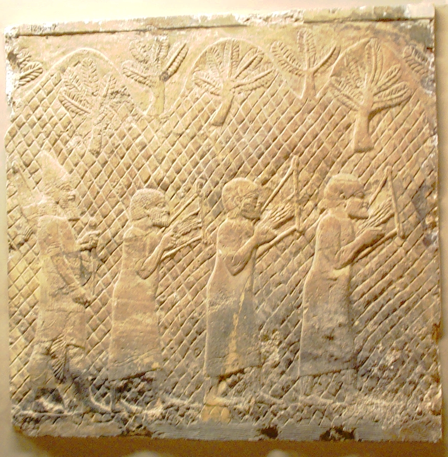 Assyrian wall carving of prisoners being forced to play lyres. From Nineveh, South West Palace 790BC - 592BC.